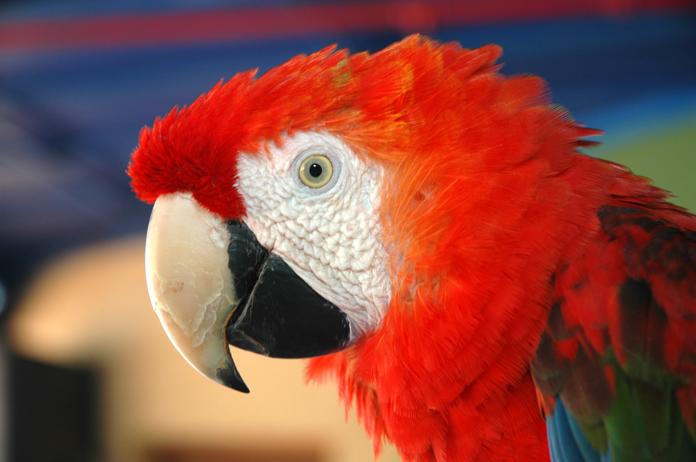 Foreground of a scarlet macaw, in Gran Canaria.